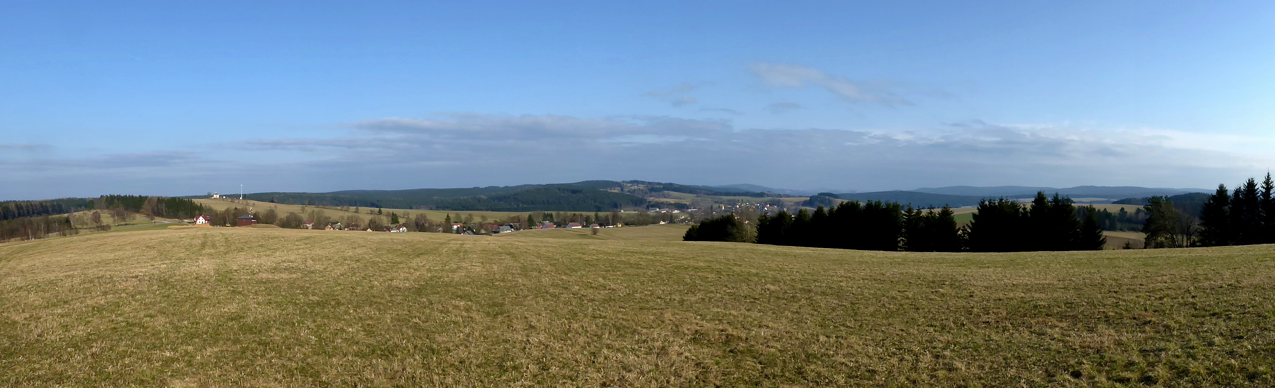 View from the top of a hill with a geographical name "U oběšeného", part of the panorama to the southeast of the top. "U oběšeného" is the geographical name (oronym) of the hill and its peak with an altitude of 737.4 m on the cadastral area "Svratouch" in the Chrudim District, belong to the Pardubice Region in the Czech Republic. Within the regional divided of the georelief of the Czech Republic the highest peak of the Iron Mountains lies in the south-eastern part of the mountain range with name "Sečská" Highlands, in the geomorphological district "Kameničská" Highlands. Locality in the Protected Landscape Area "Žďárské" Hills. Note: between the hills with names "U oběšeného" and "Otava" (in the photo on left) is divide river basin the european rivers Elbe and Danube. Photo-location: Czechia, Pardubice Region, the village of "Svratouch".